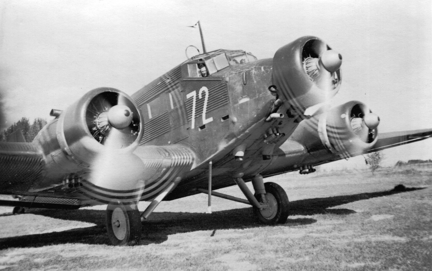 Junker, Ju 52 to the Swedish Airforce during the war.1946-03-24/ 24 mars 1946